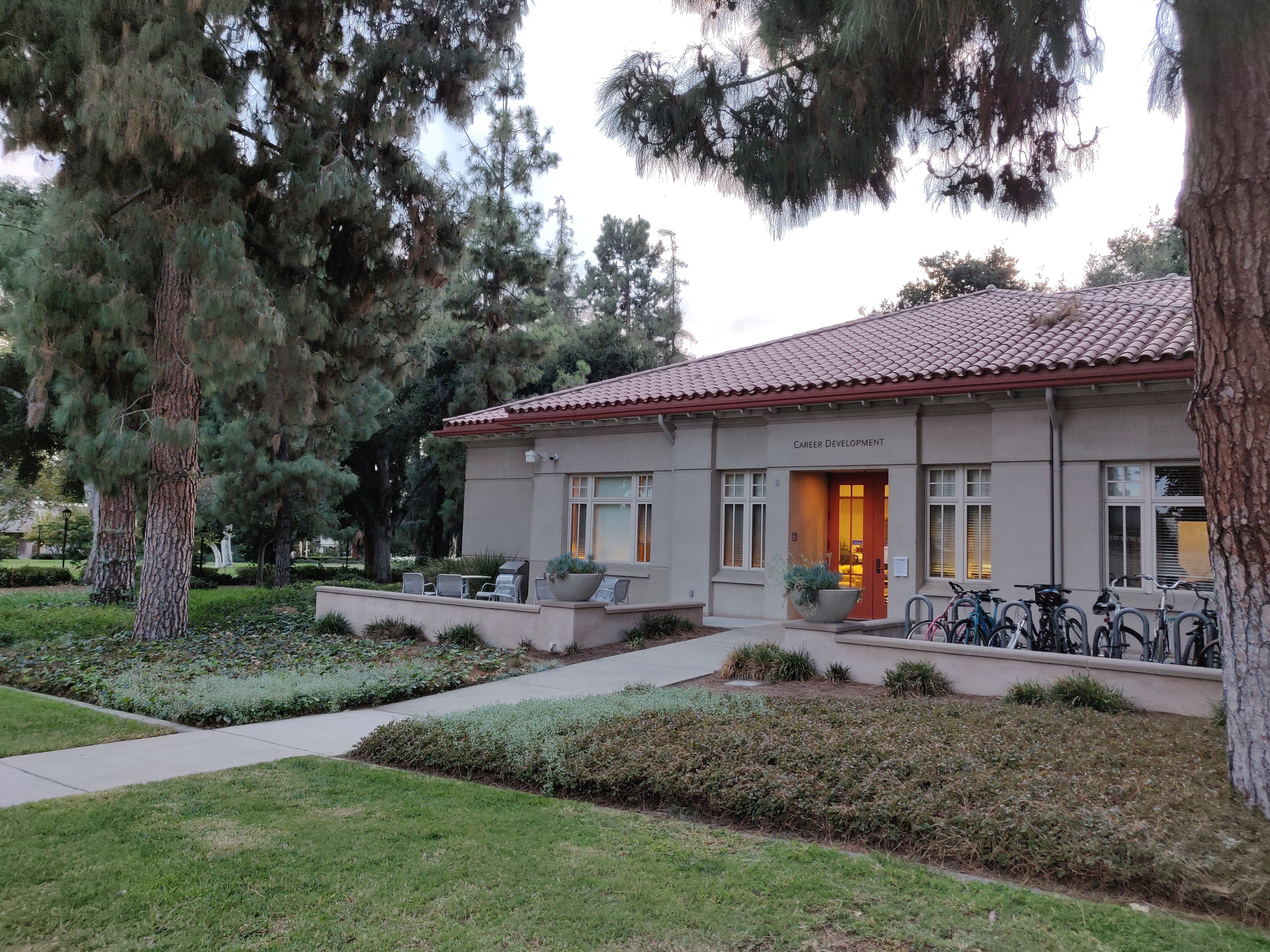 The east facade of Alexander Hall at Pomona College, home to the Career Development Office